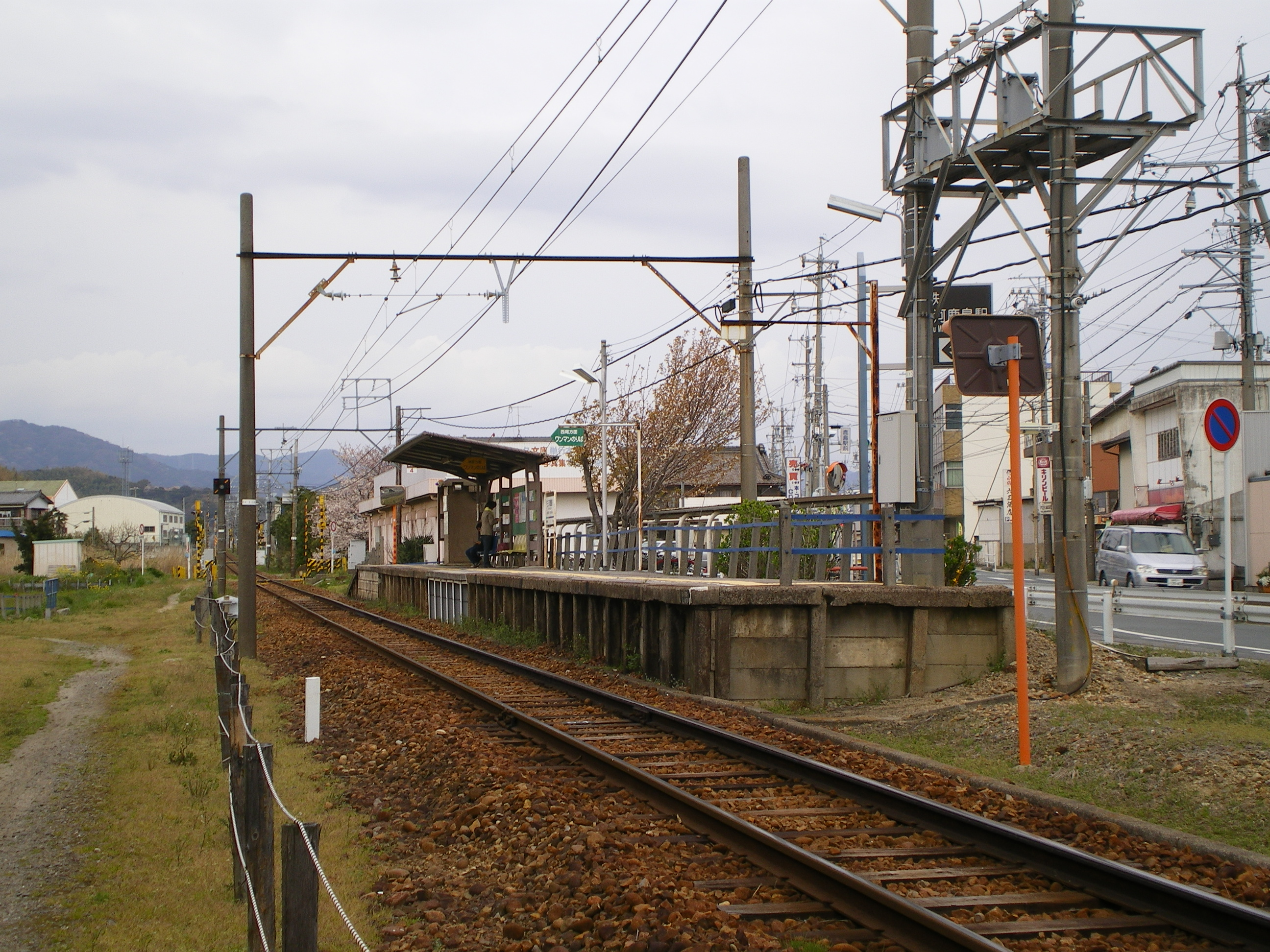 Nagoya Railroad Gamagōri Line Mikawa-Kashima Station Platform